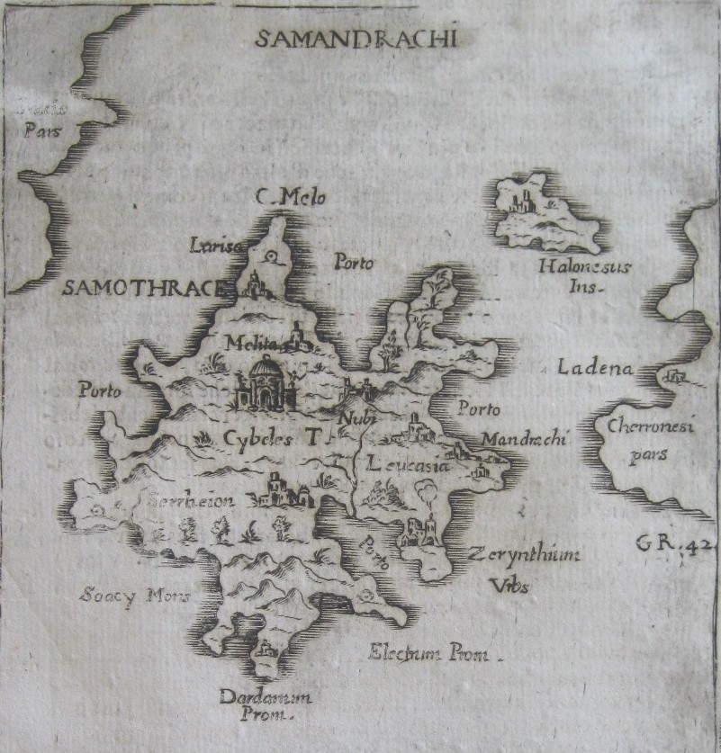 Depiction of Samothrace island in the Aegean sea by Piacenza Francesco in L'Egeo redivivo, o' sia choragraphia dell' Archipelago. Published in 1688, one year after Piacenza's death in 1687.